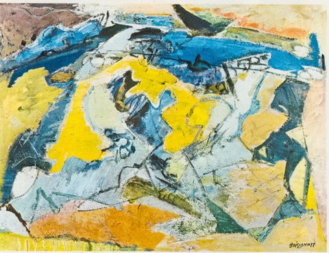 Edmond Boissonnet